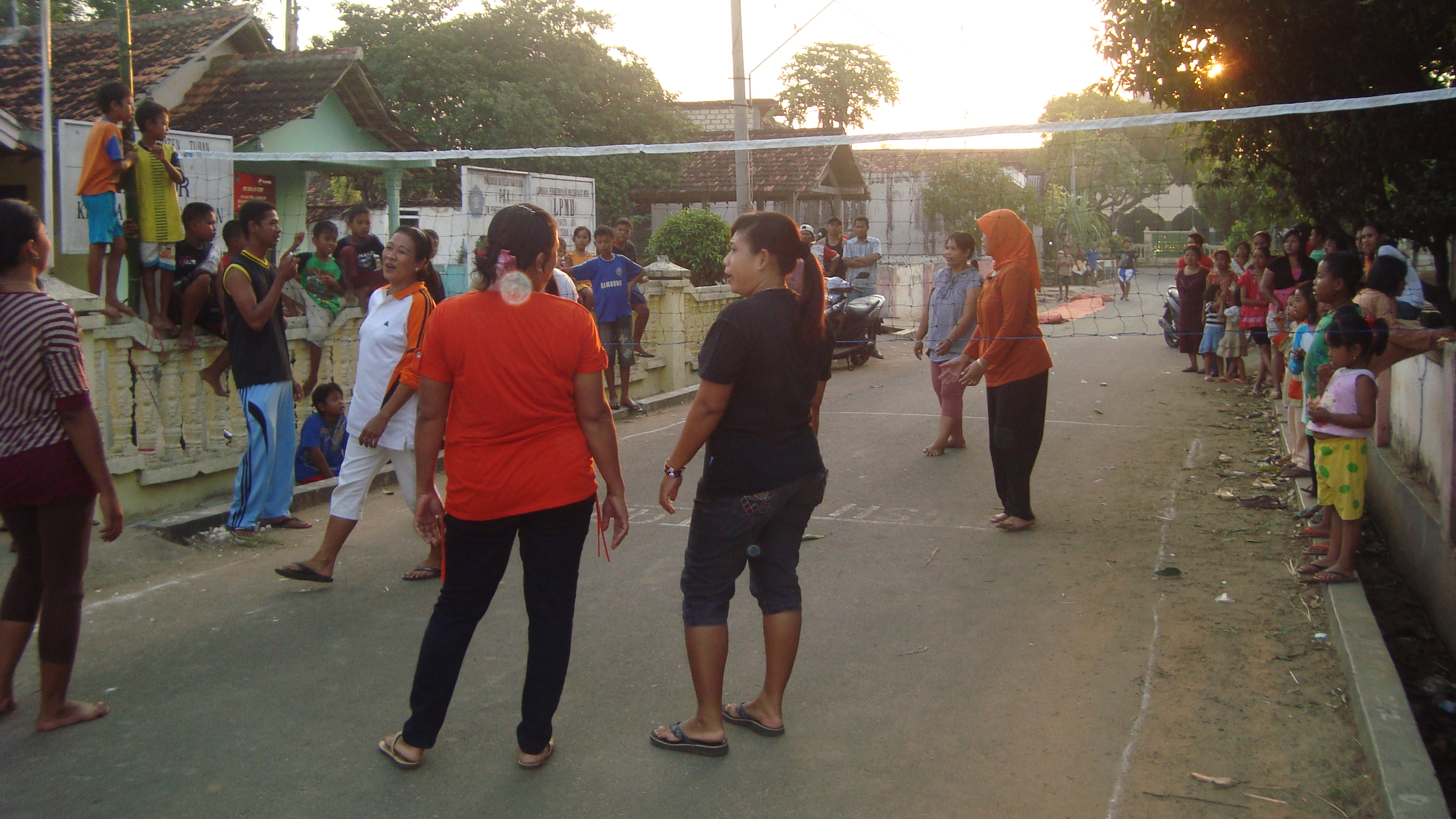 Kegiatan 17 Agustusan - Voli Putri